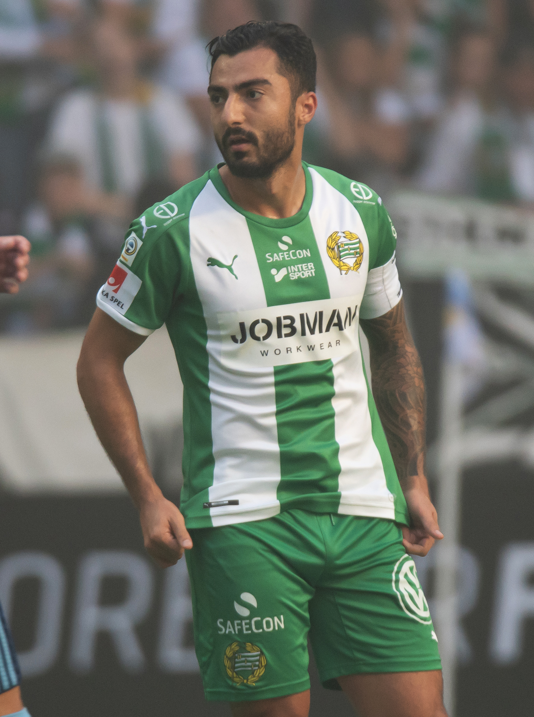 Jiloan Hamad playing for Hammarby.